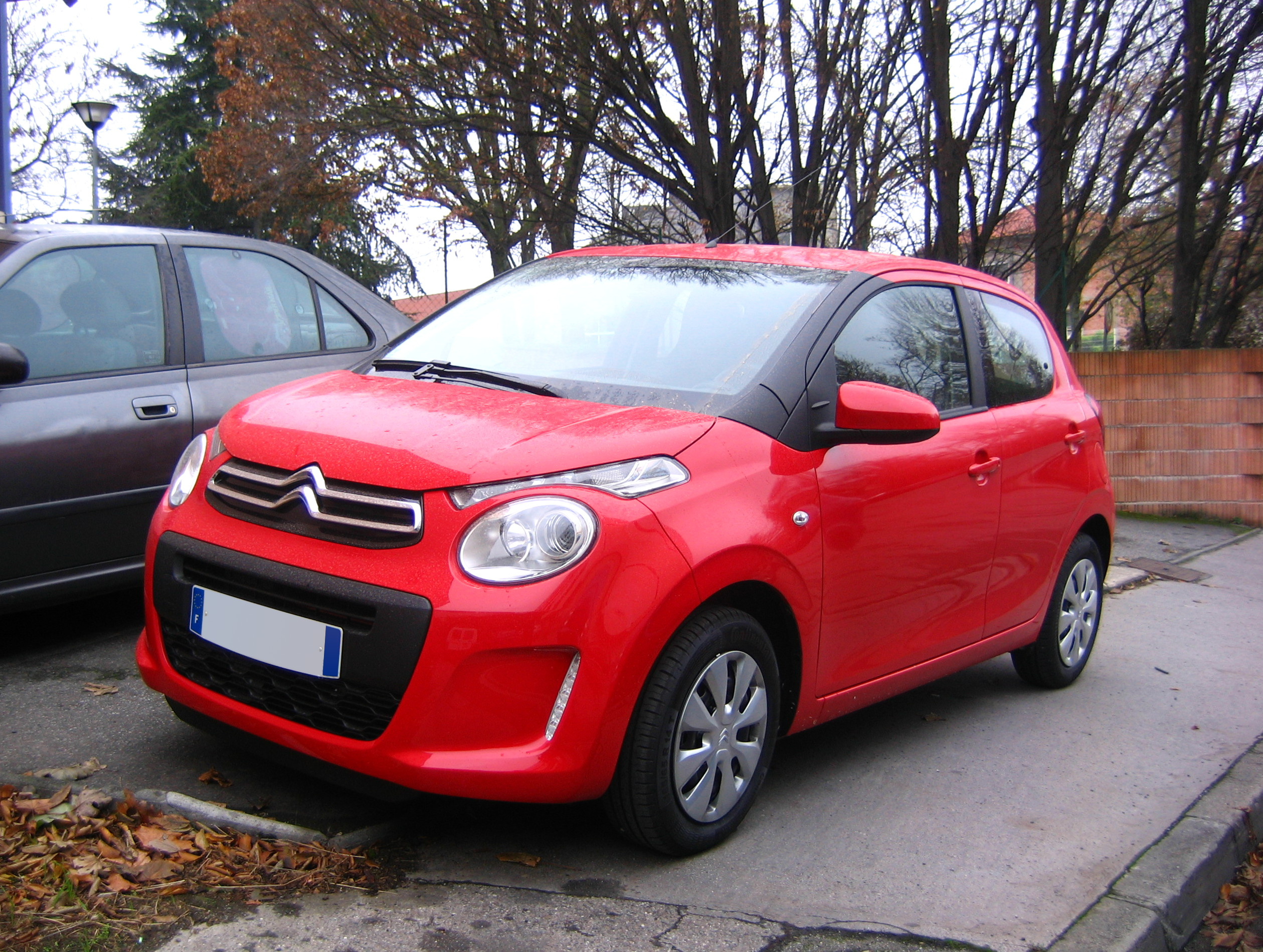 A 5-door hatchback 2nd generation 2014 Citroën C1.